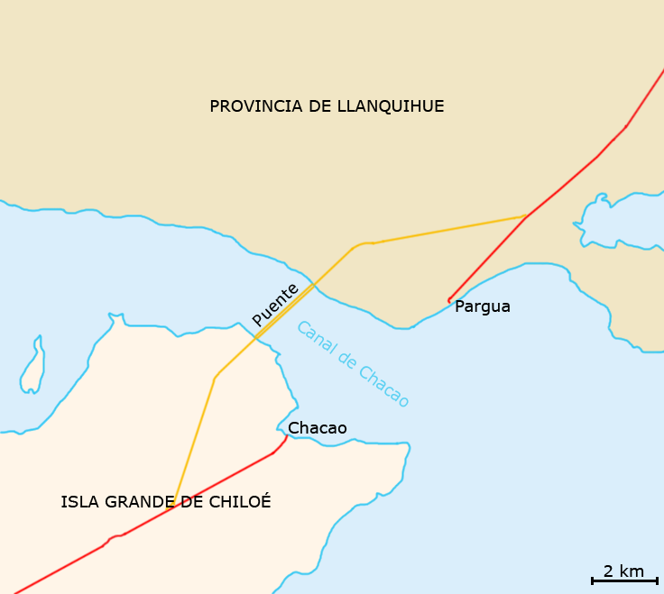 Map of the project of the Chiloé Bicentennial Bridge, Chile Creado por B1mbo, basado en los planos originales [1]